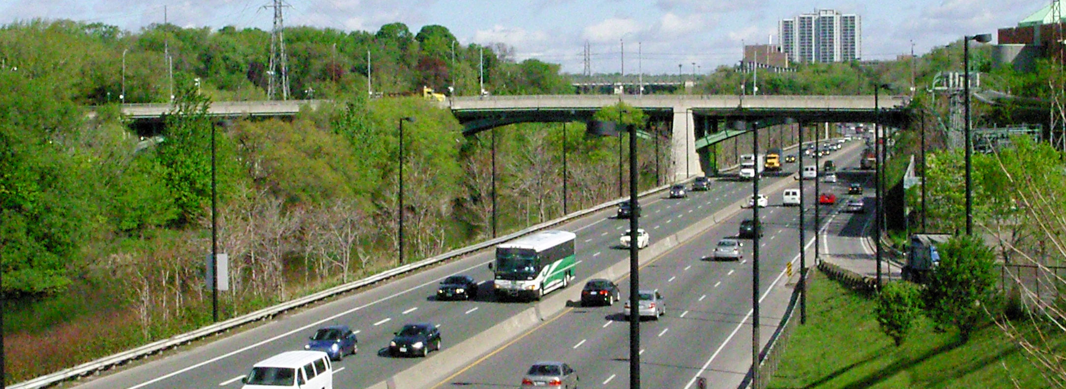 View of Gerrard Street bridge from south in Toronto, Canada.